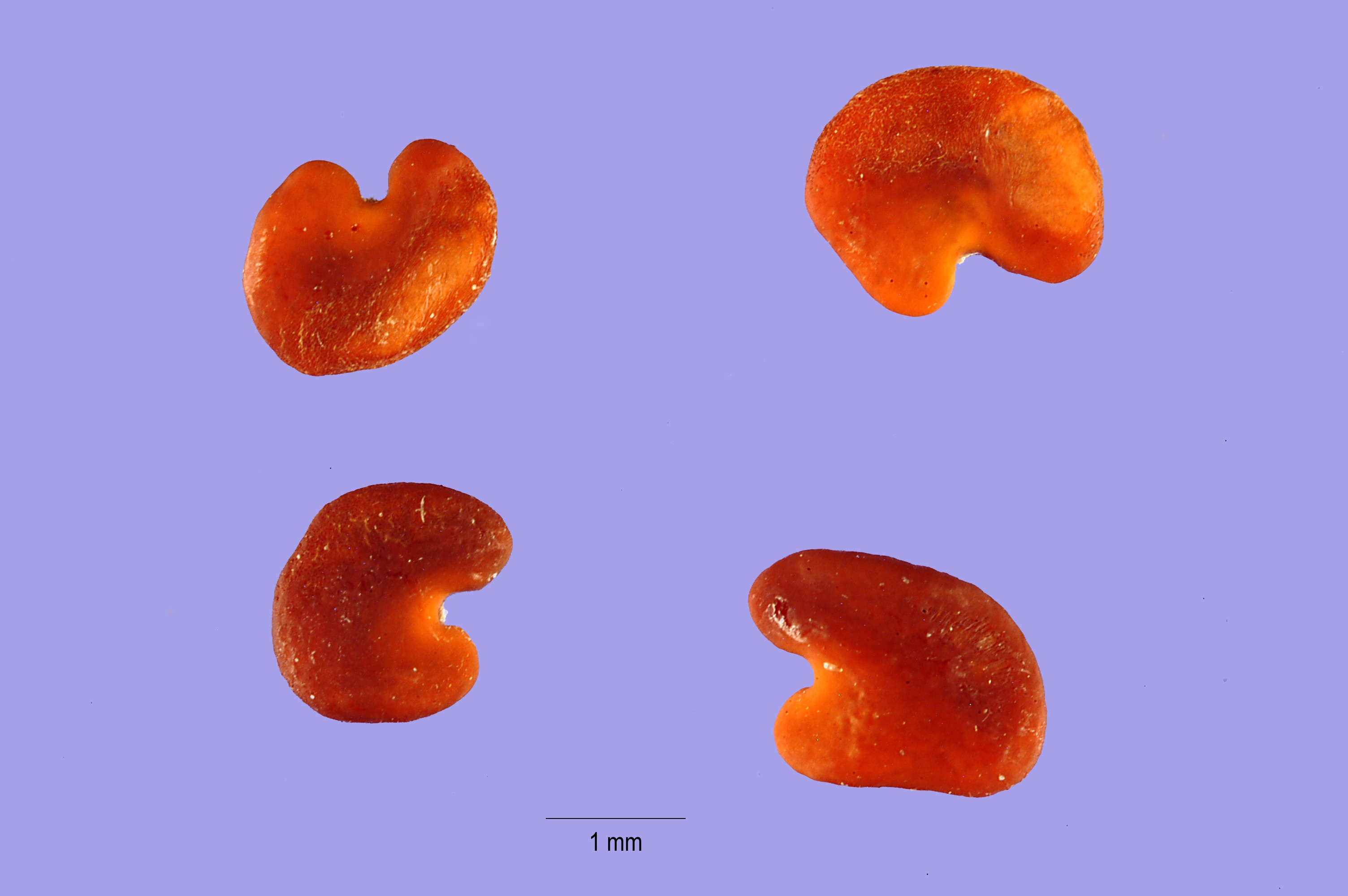 seeds of Astragalus douglasii from Tracey Slotta. Provided by ARS Systematic Botany and Mycology Laboratory. United States, CA, San Diego Co.